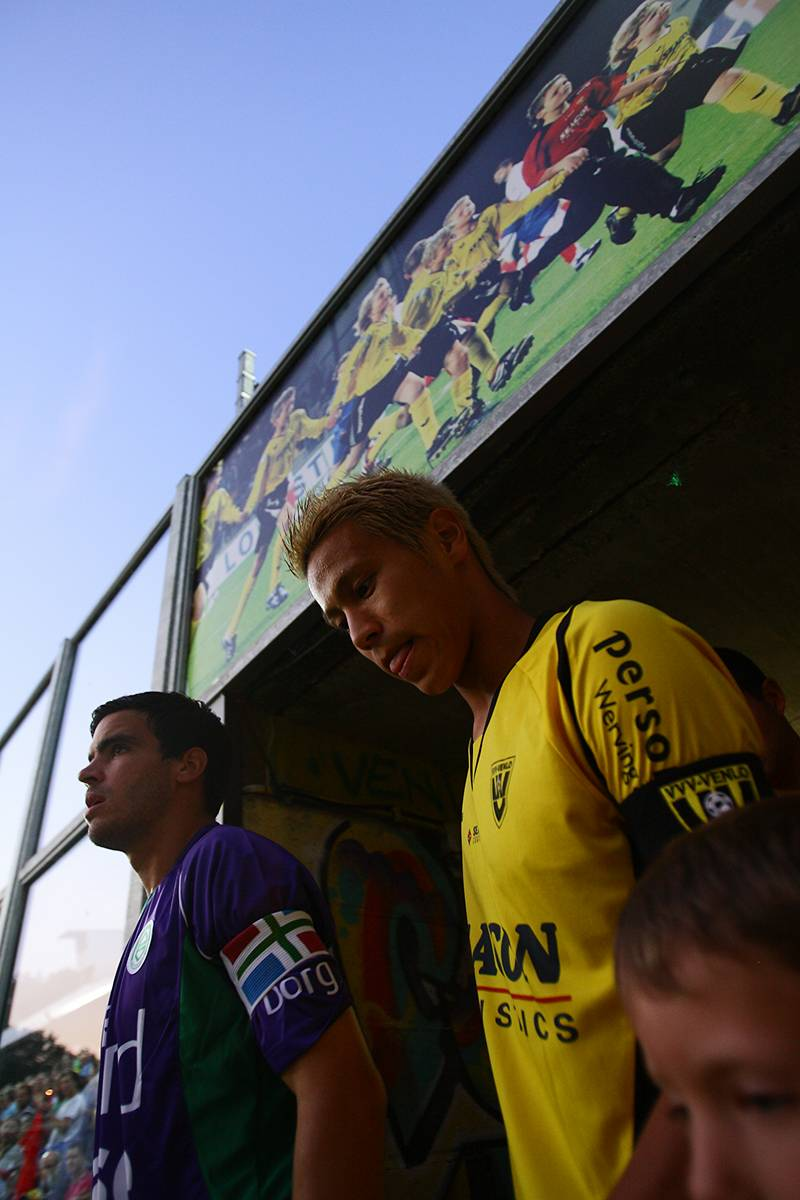 AUGUST 22, 2009 - Football : Keisuke Honda of VVV Venlo enter the pitch before the Eredivisie match between VVV Venlo and FC Groningen at the De Koel stadium on August 22, 2009 in Venlo, Netherlands. (Photo by Tsutomu Takasu)